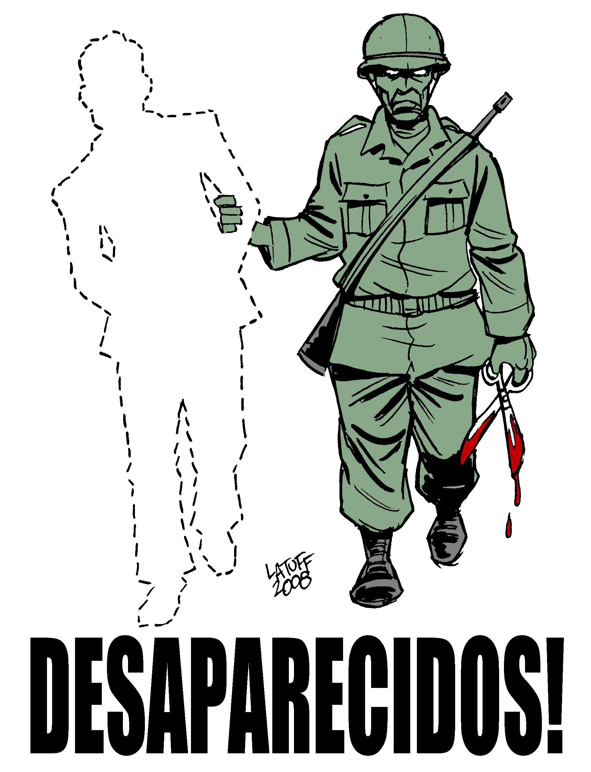 Tribute to Argentine documentary filmmaker Raymundo Gleyzer and all the missing persons during U.S. backed right wing dictatorships in South America.